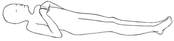 Decorticate Posture. I drew this.